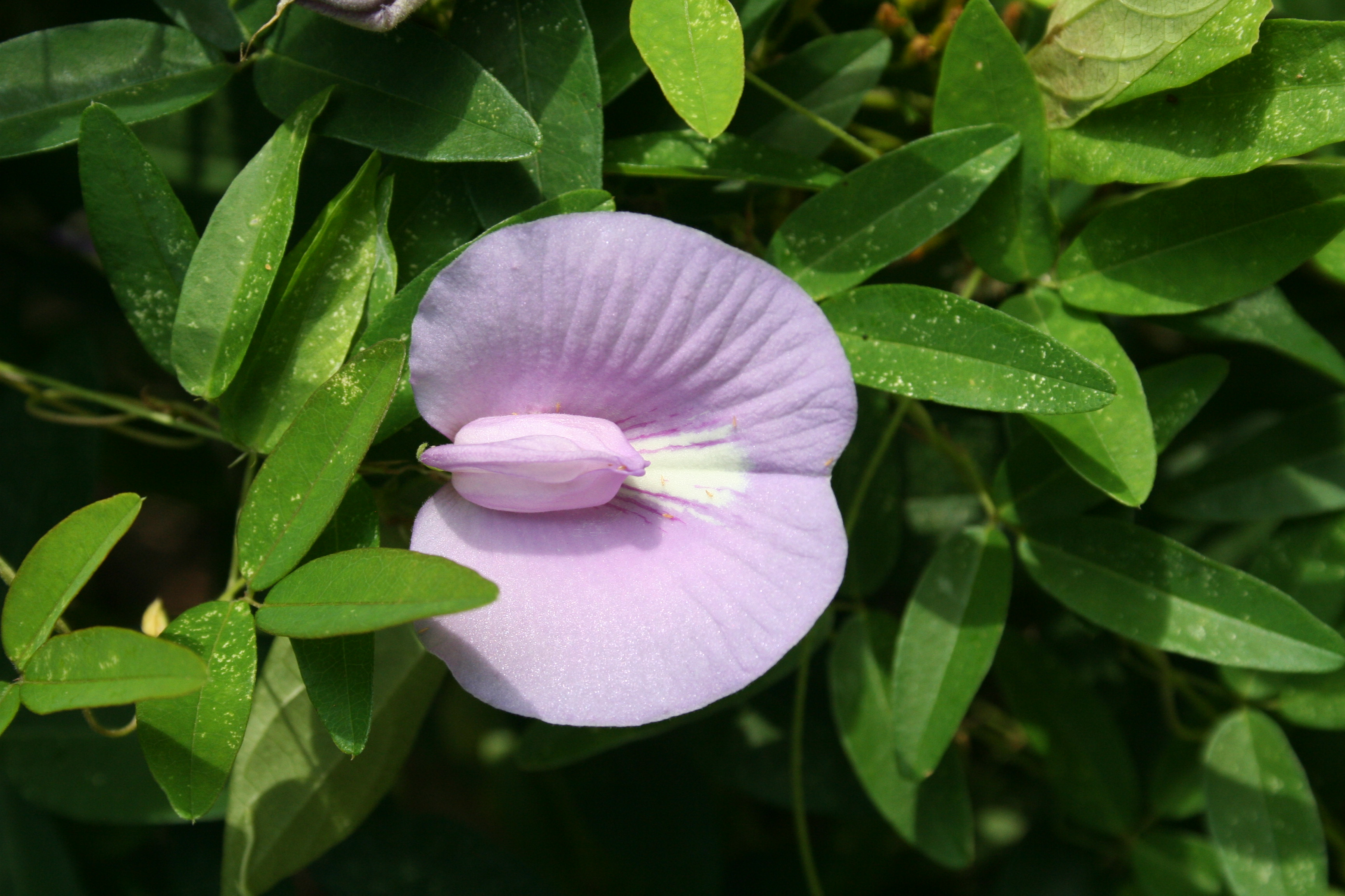 Spurred butterfly pea (Centrosema virginianum) at Big Talbot Island State Park, FL